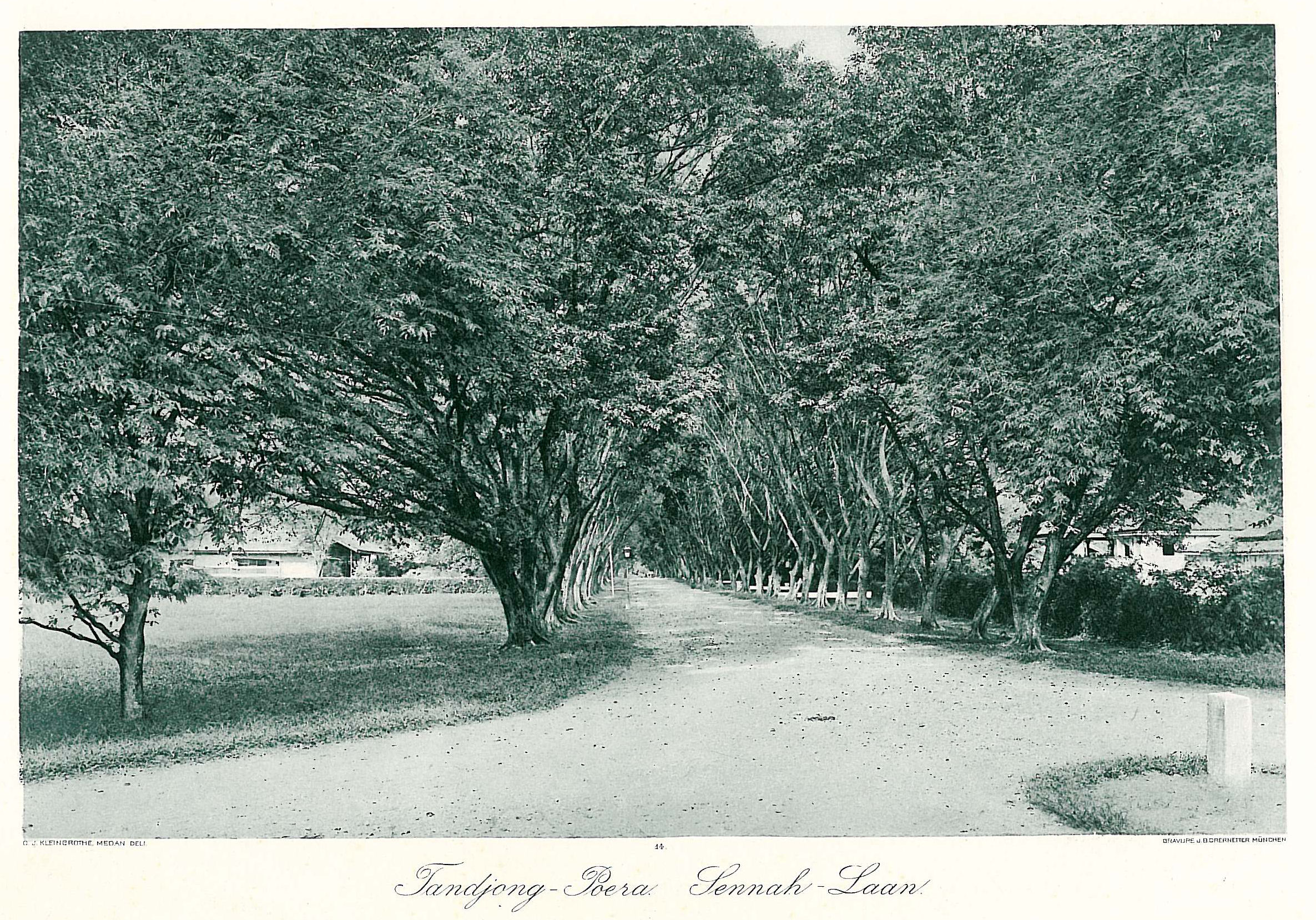 Historical postcard of Indonesia